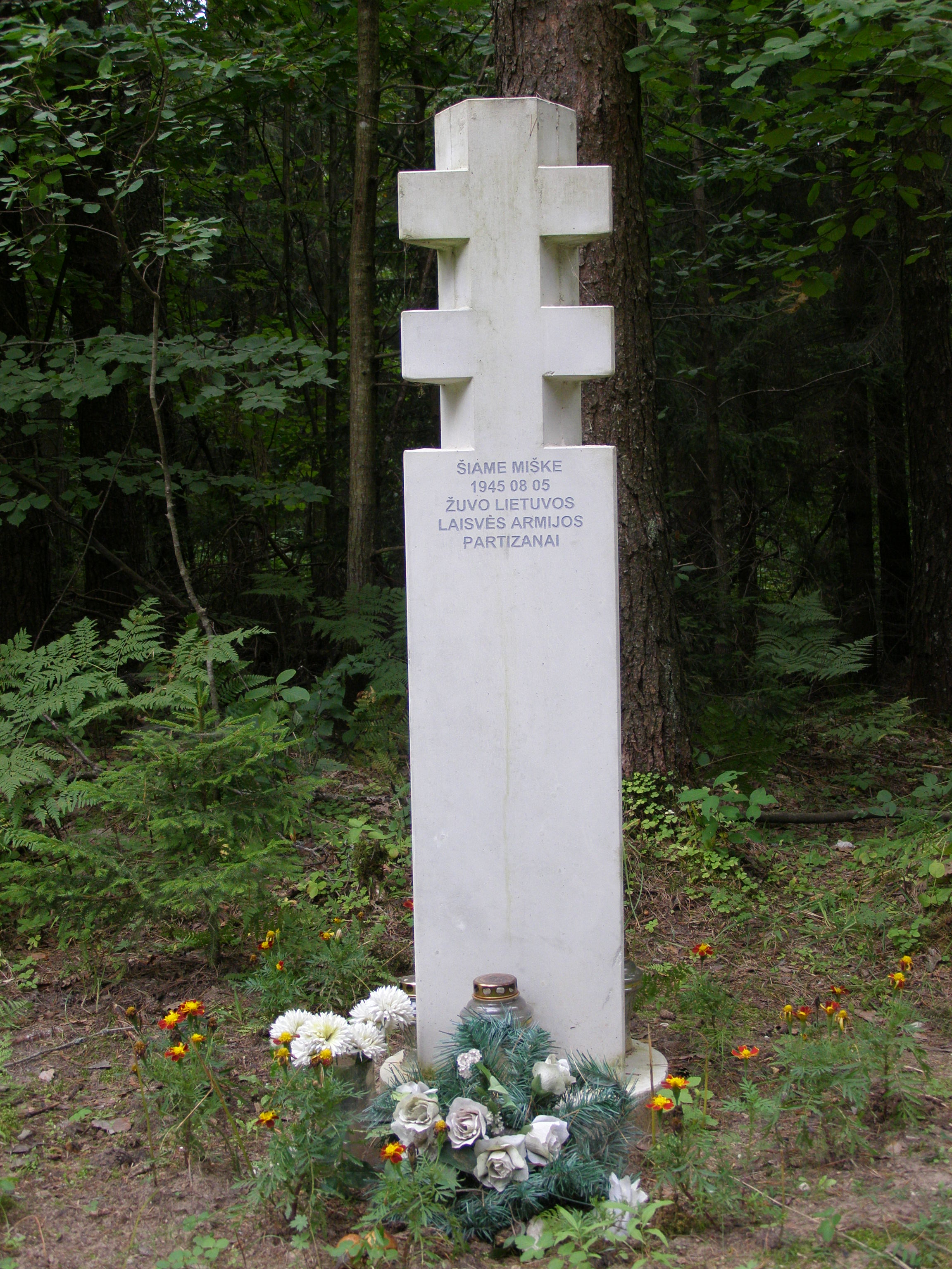 Laumės monument, Skuodas district, LithuaniaLietuvių: Laumių paminklas partizanams, Skuodo rajonas, Lietuva